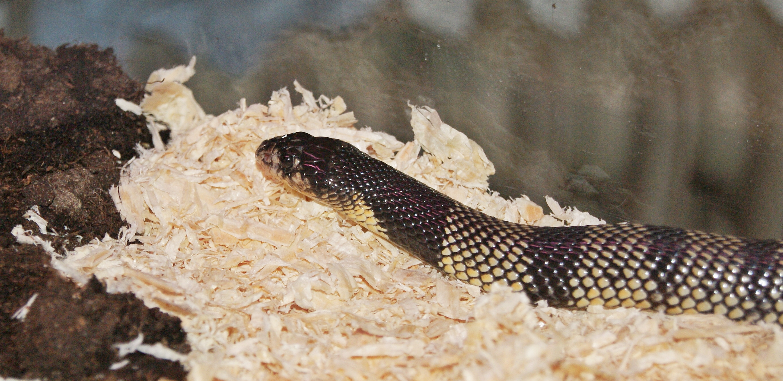 Aspidelaps lubricus, coral cobra